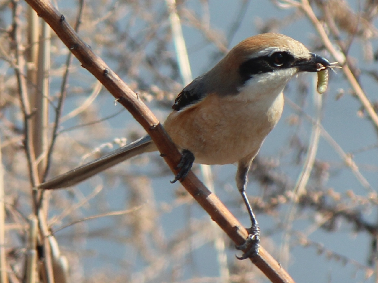 Lanius bucephalus (Bull-headed Shrike) capturing larva, in Japan